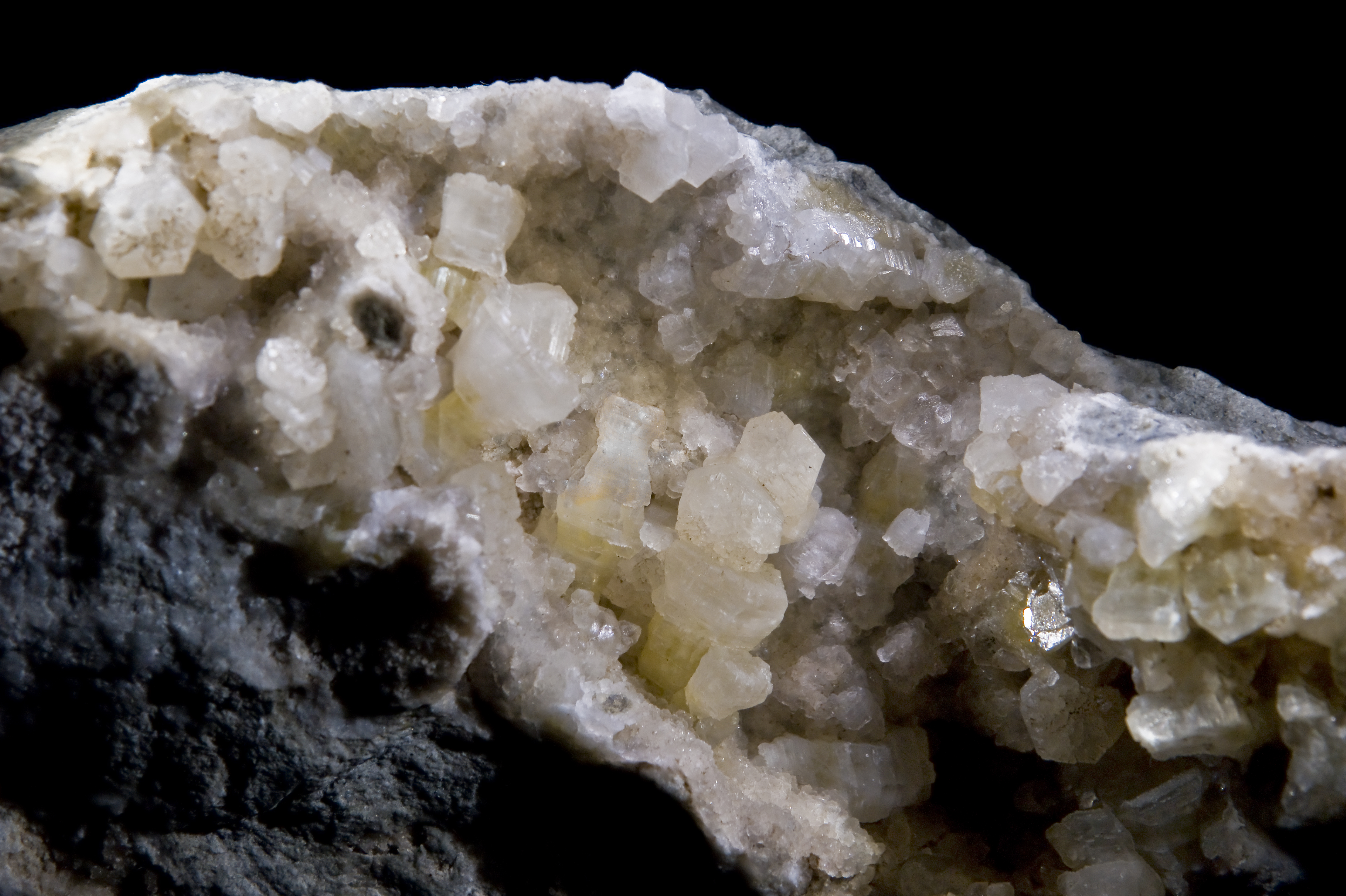 Weloganite Locality : Francon quarry, St. Michel District, Montréal, Jacques Cartier Co., Québec, Canada Size (11x5.5cm)